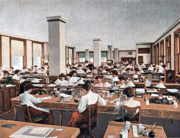 Met Life Acturial Office, 1910. In the decade of the 1910s, the Metropolitan Life company produced millions of these postcards to publicise its products and services. See Roberta Moudry's "The Corporate and the Civic", p.133, for more details.